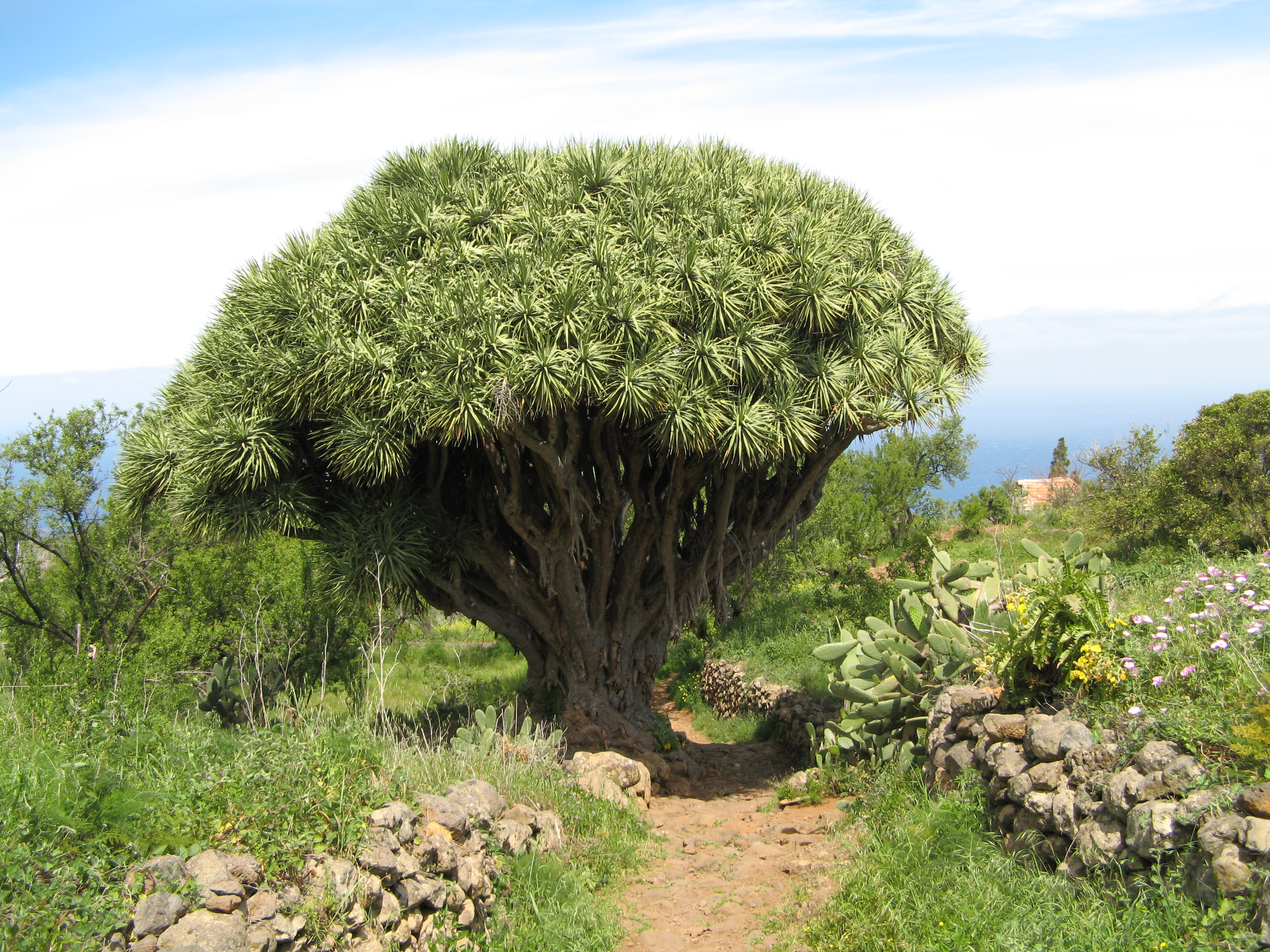 Dragon Tree in Las Tricias, Garafía, La Palma